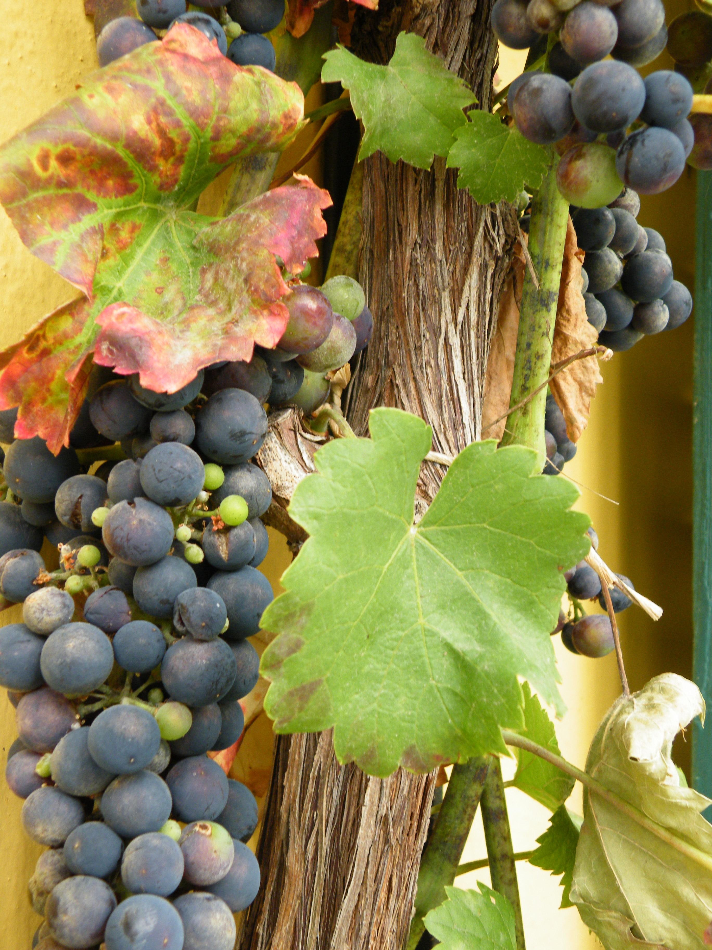 The hybrid grape Regent growing in Germany